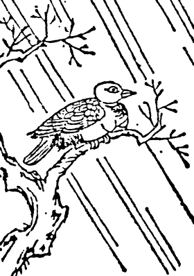 Ubume (姑獲鳥) from the Wakan Sansai Zue (和漢三才図会)